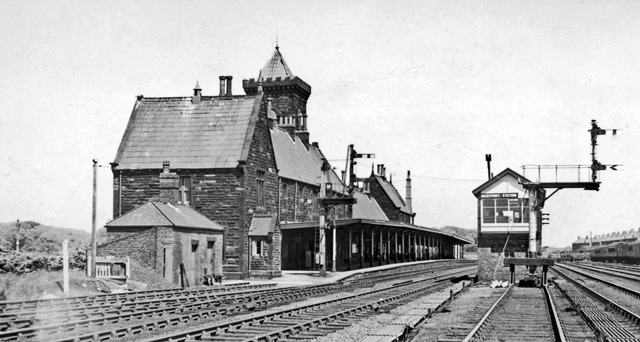 Maryport Station, View NE, towards Carlisle; ex-Maryport & Carlisle Rly. secondary main line from Carlisle and on (ex-LNWR) to Workington. Note that the station had only a single platform, for Down as well as Up trains.